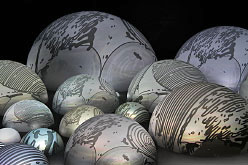 Uros Island at the 2011 Biennale di Venezia by Grimanesa Amorós, 2011